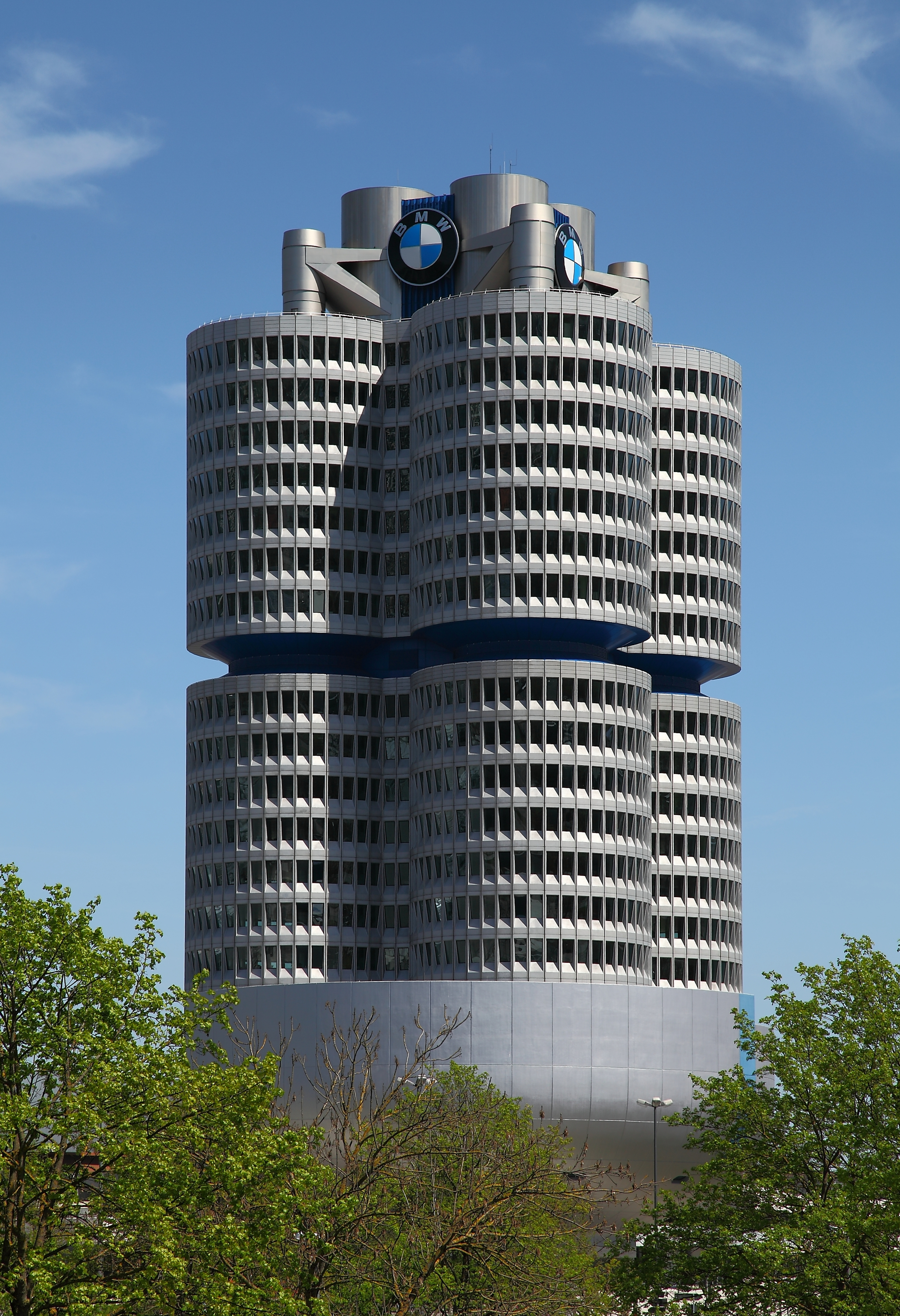 BMW Tower, Munich, Germany